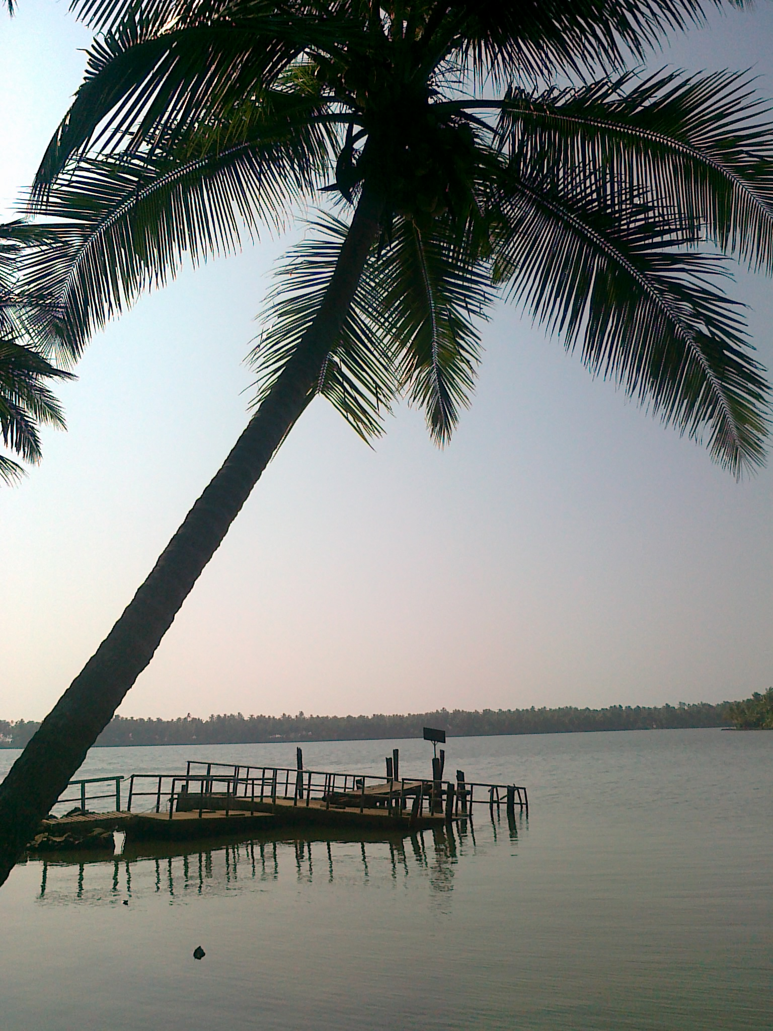 kavvayi